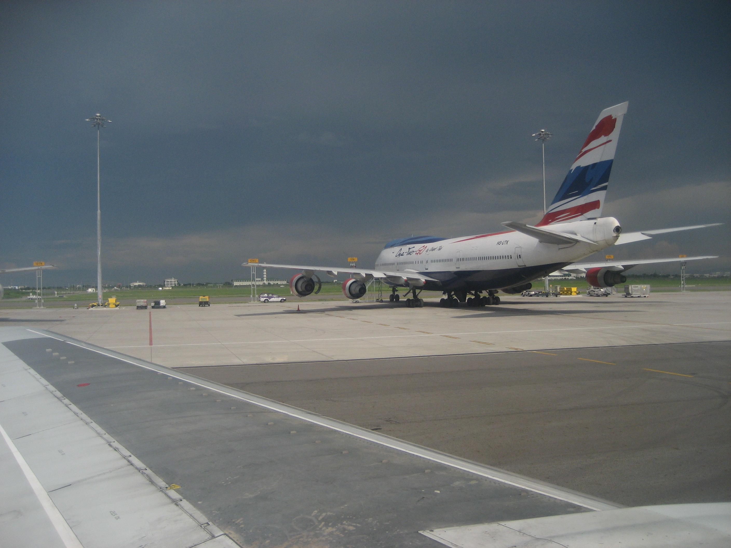 Image of One-Two-GO Airlines, Code HS-UTK